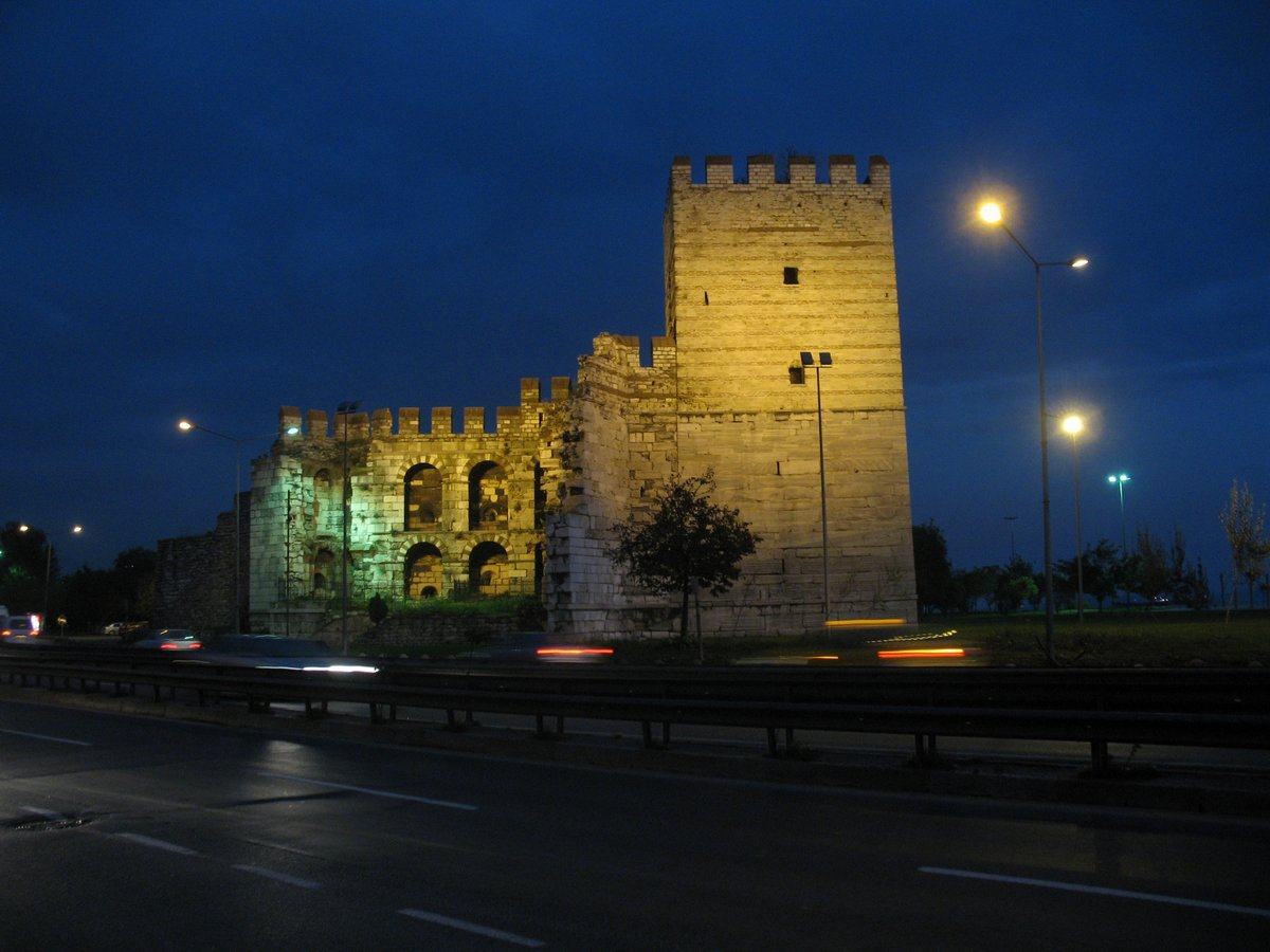 The Marble Tower in the night.